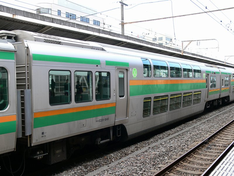 JR East E231-1000 (Suburb Type) Double Deck Green Car (s/n: Saro E231-1045, taken at Hiratsuka Station, Tokaido Main Line)